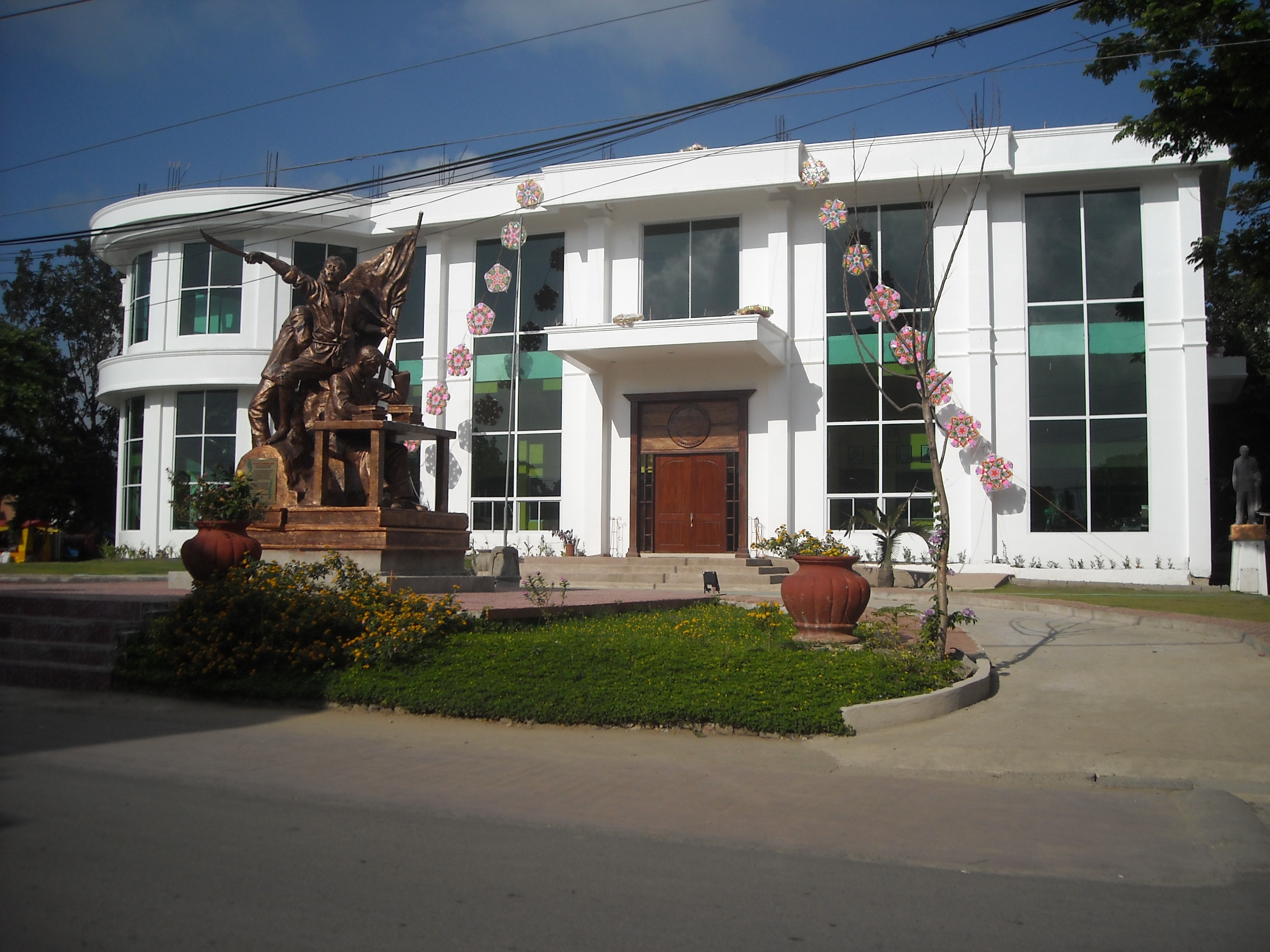 The municipal hall in Anda, Pangasinan. Monument of national heroes also in the background.